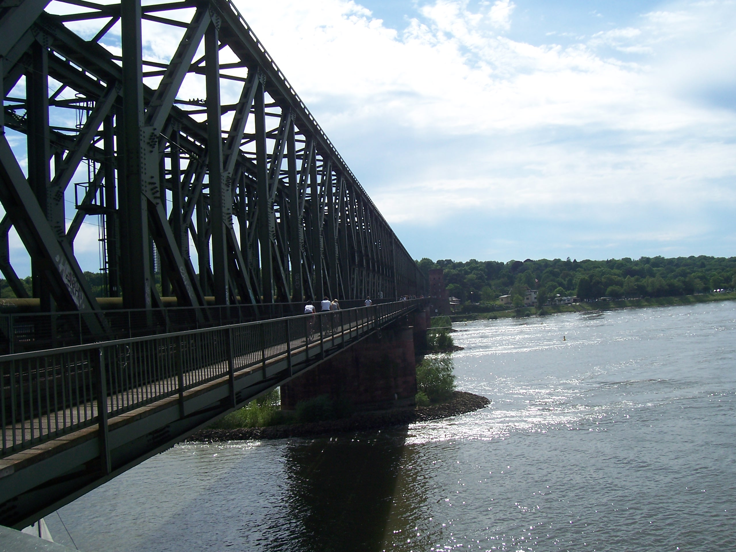 Southern Brige in Mainz, Germany